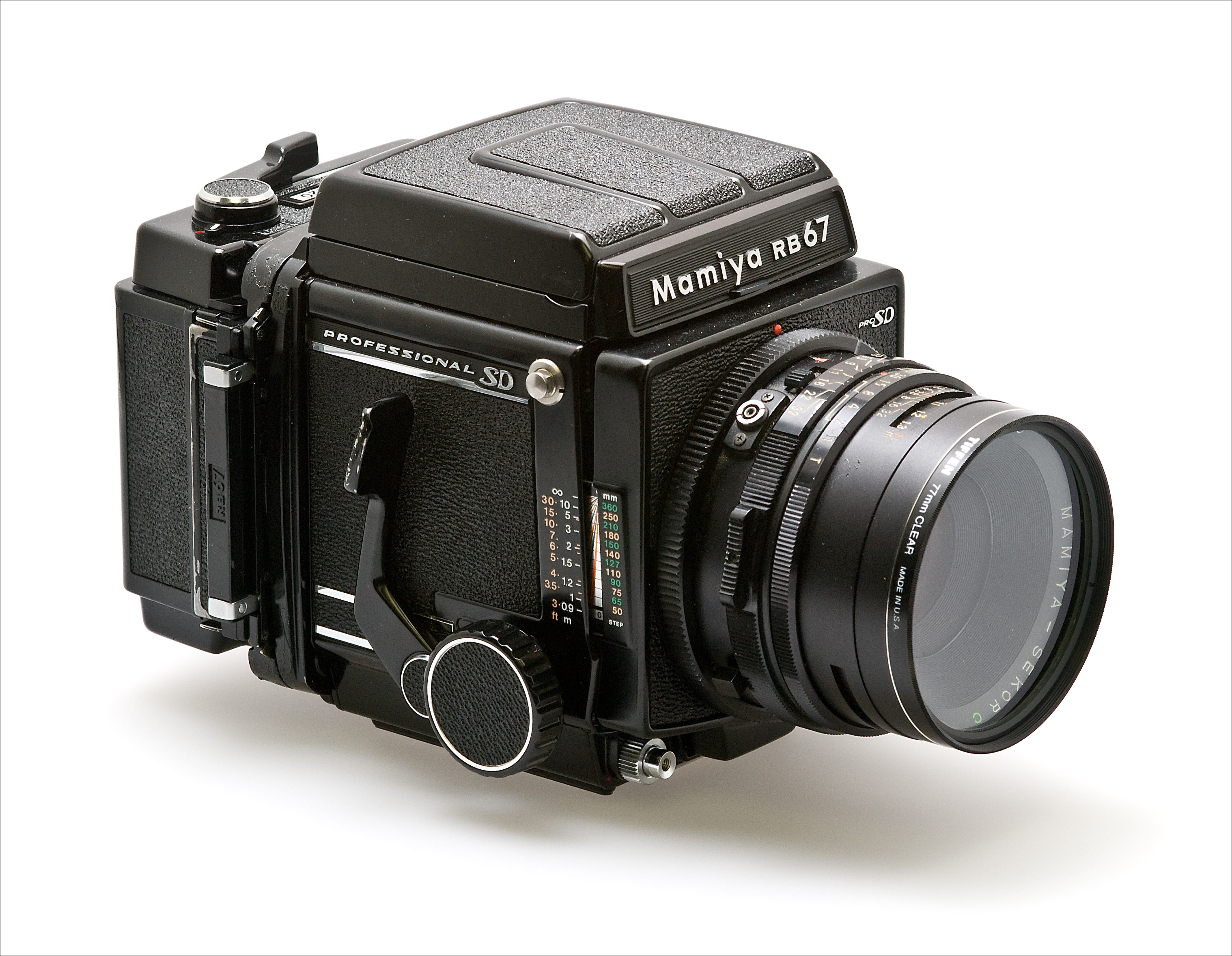 Mamiya RB67 ProSD